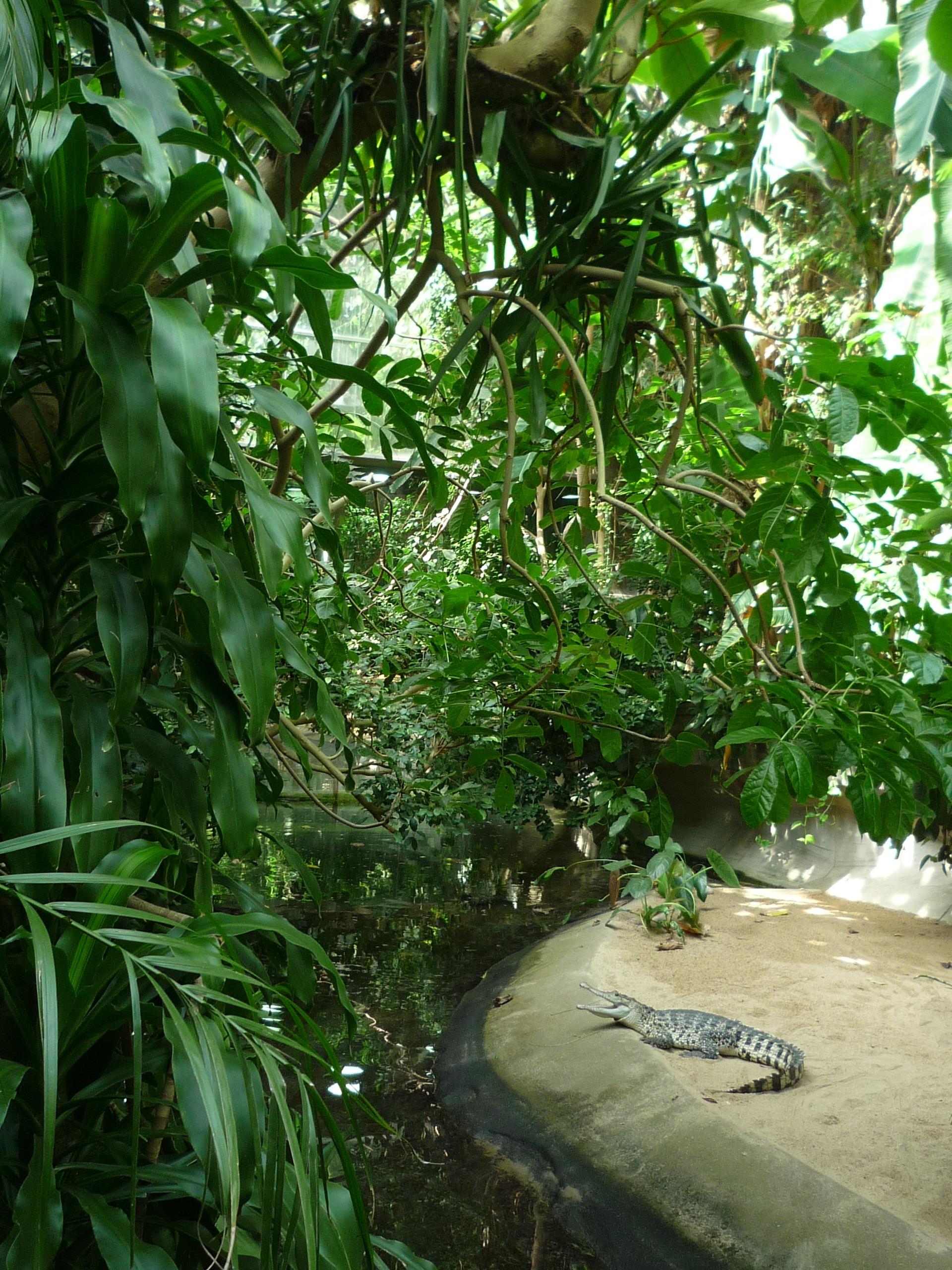 Zoo Aquarium Berlin, inside the hall of crocodiles.